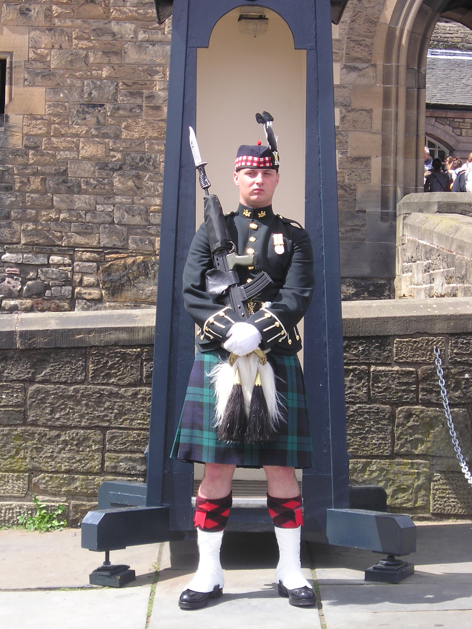 A Guard posted on the Esplanade outside the entrance to Edinburgh castle, during the week when the Queen is in residence in the Palace of Holyroodhouse.